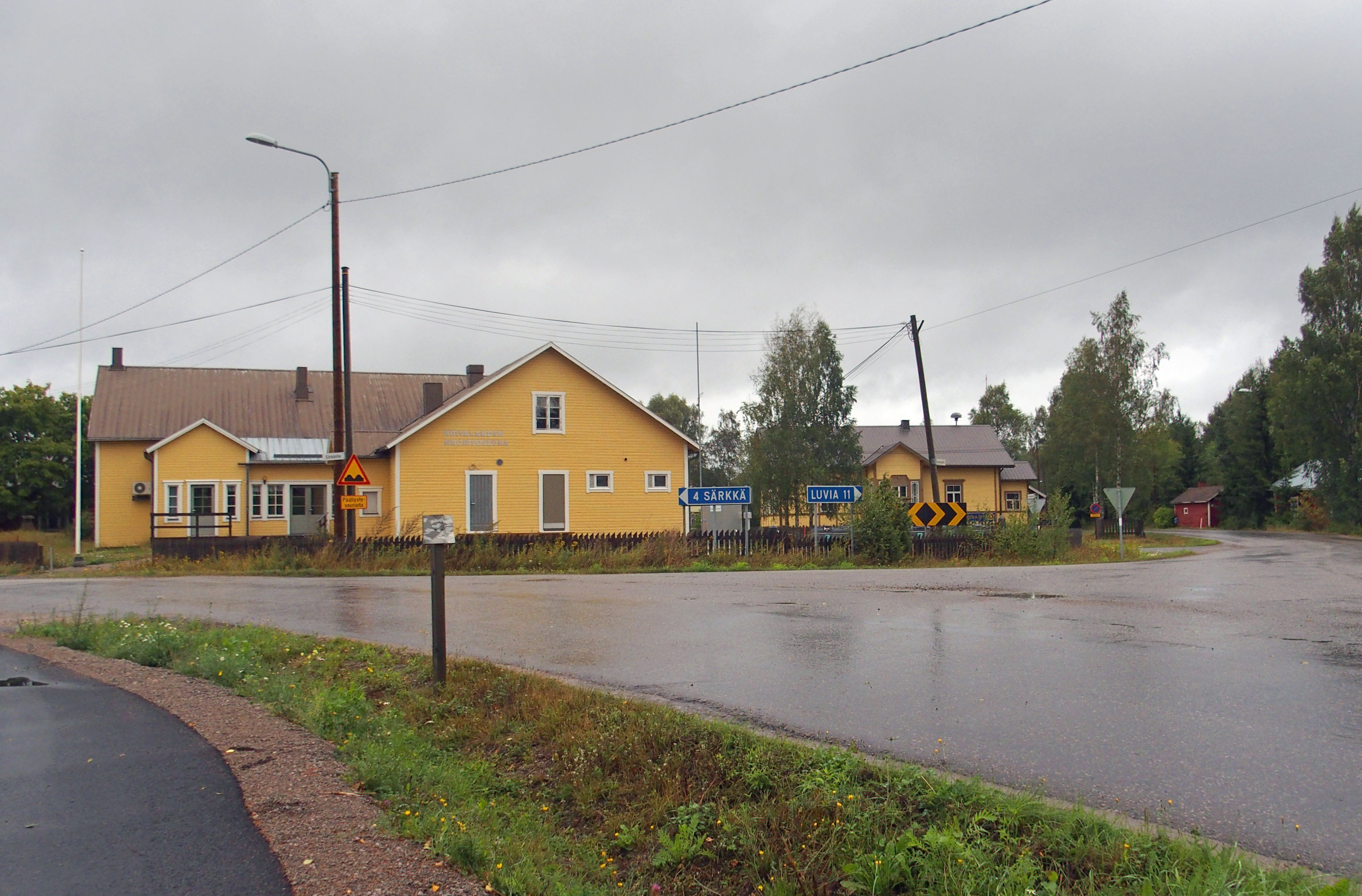 Intersection of Etukämpäntie (local road 12779), Luviantie (local road 12853) and Särkäntie (local road 12779) in the centre of Kuivalahti village in Eurajoki, Finland. A community centre (Finnish: nuorisoseurantalo) on the left.